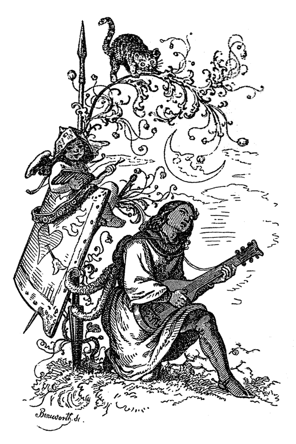 Illustration for Musäus' Volksmärchen (Richilde)